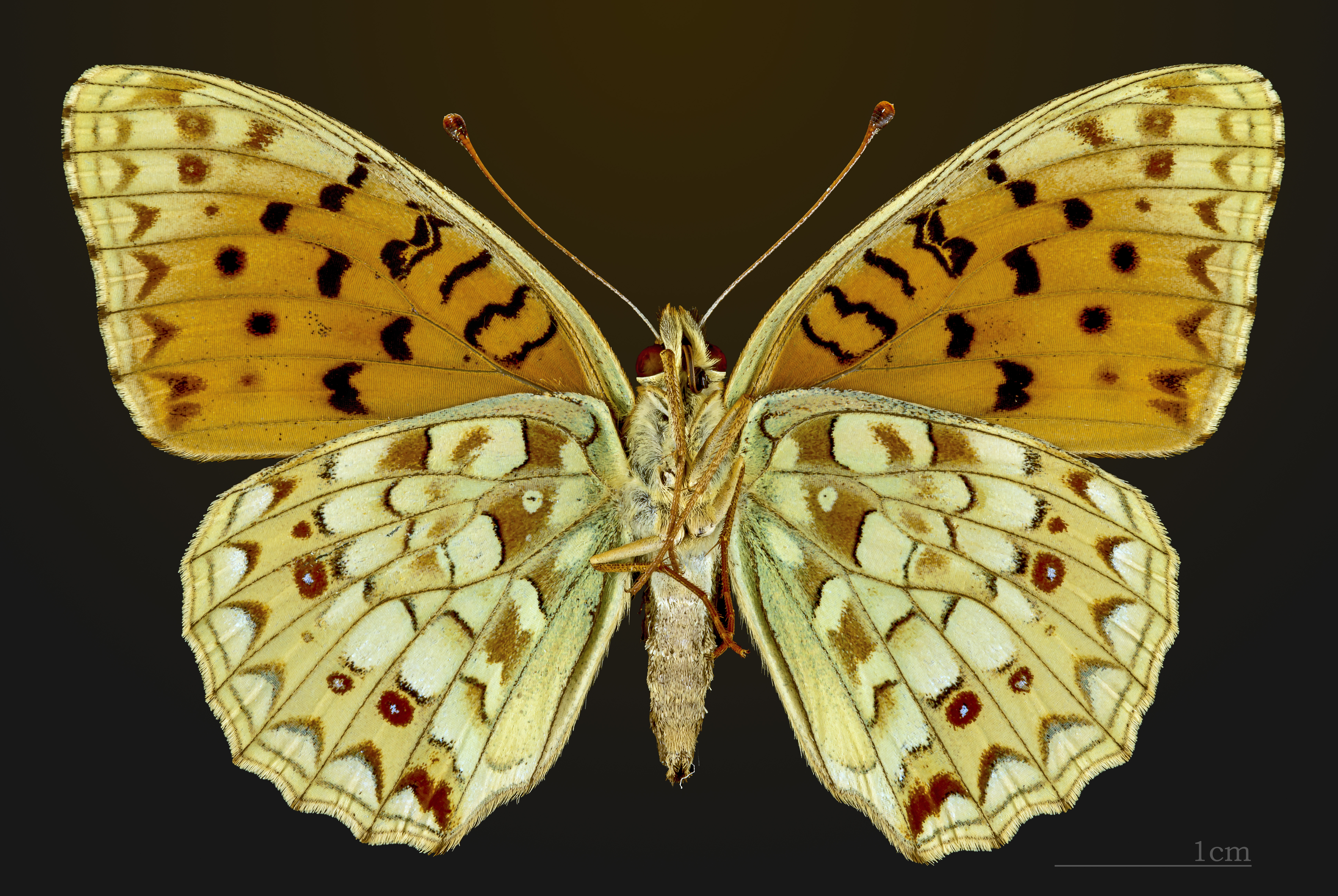 Niobe fritillary - △ Ventral side Locality: Cahors, Lot, France